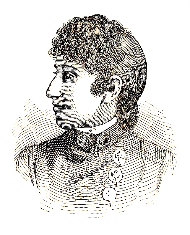 Julia Ringwood Coston, 1893